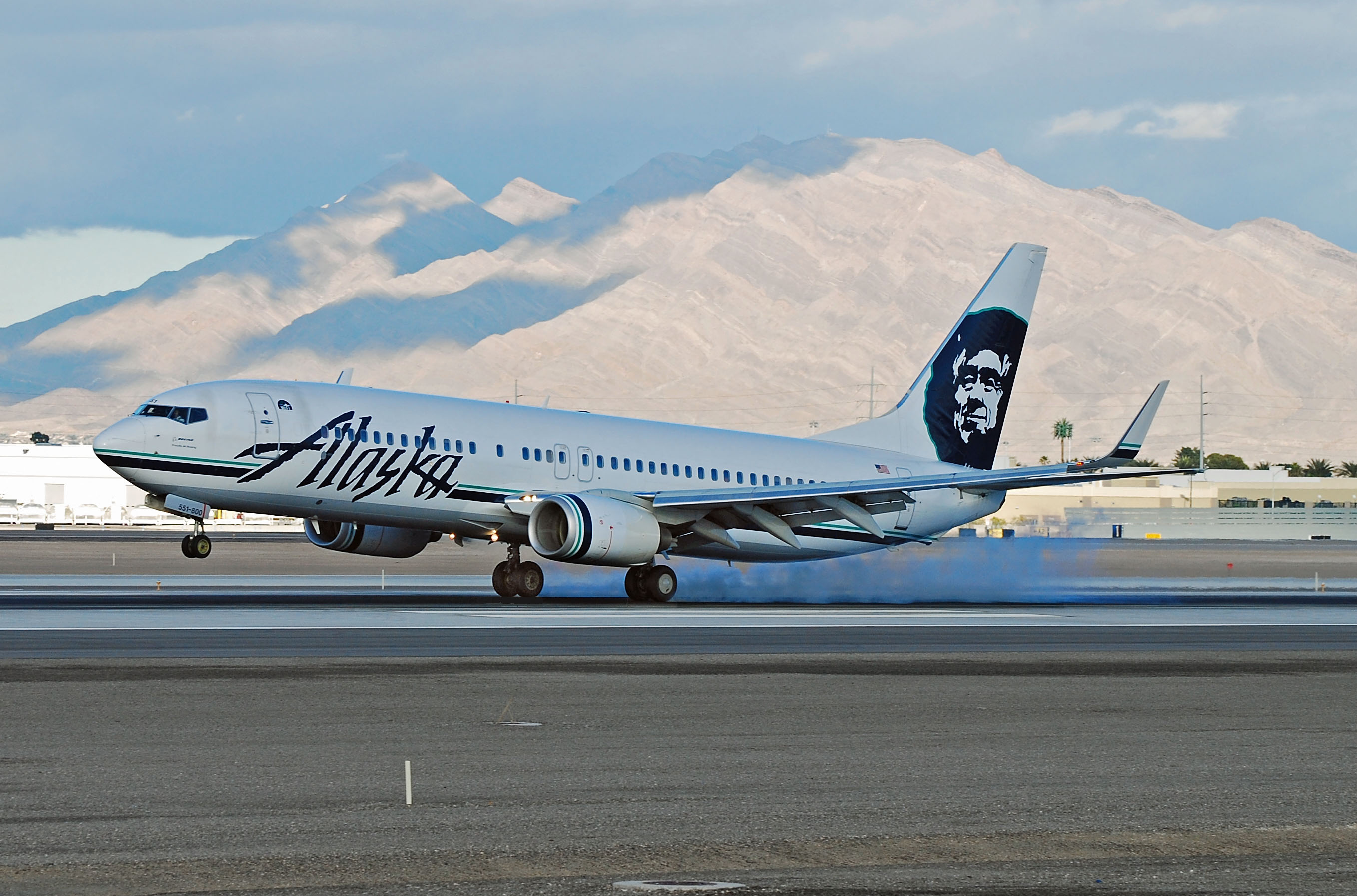 Las Vegas - McCarran International (LAS / KLAS) USA - Nevada, December 23, 2010 Photo: Tomas Del Coro